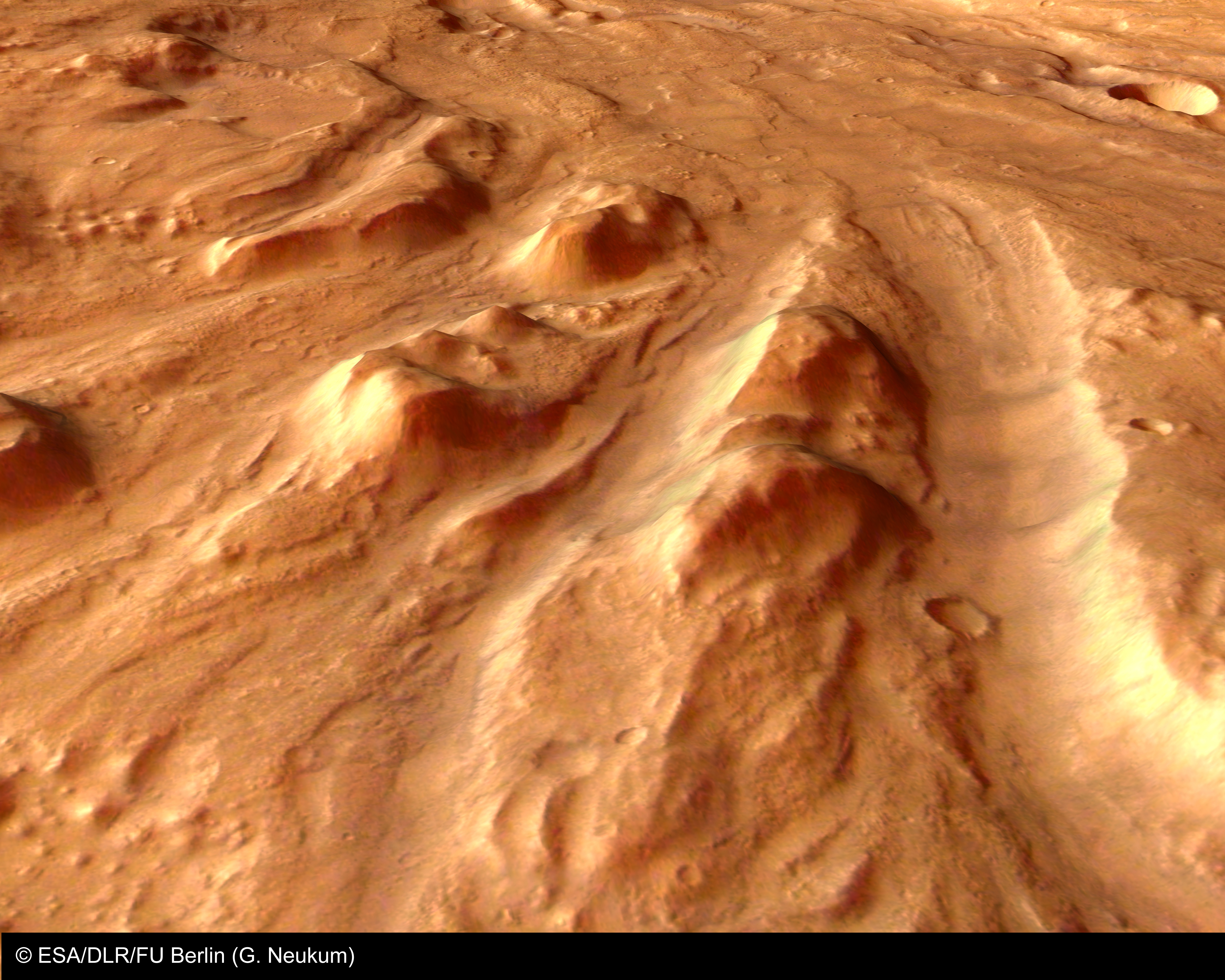 Perspective close-up view of outflow signatures in Ares Vallis